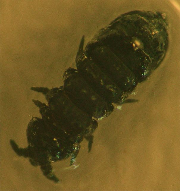 found on Greater Cumbrae, Scotland